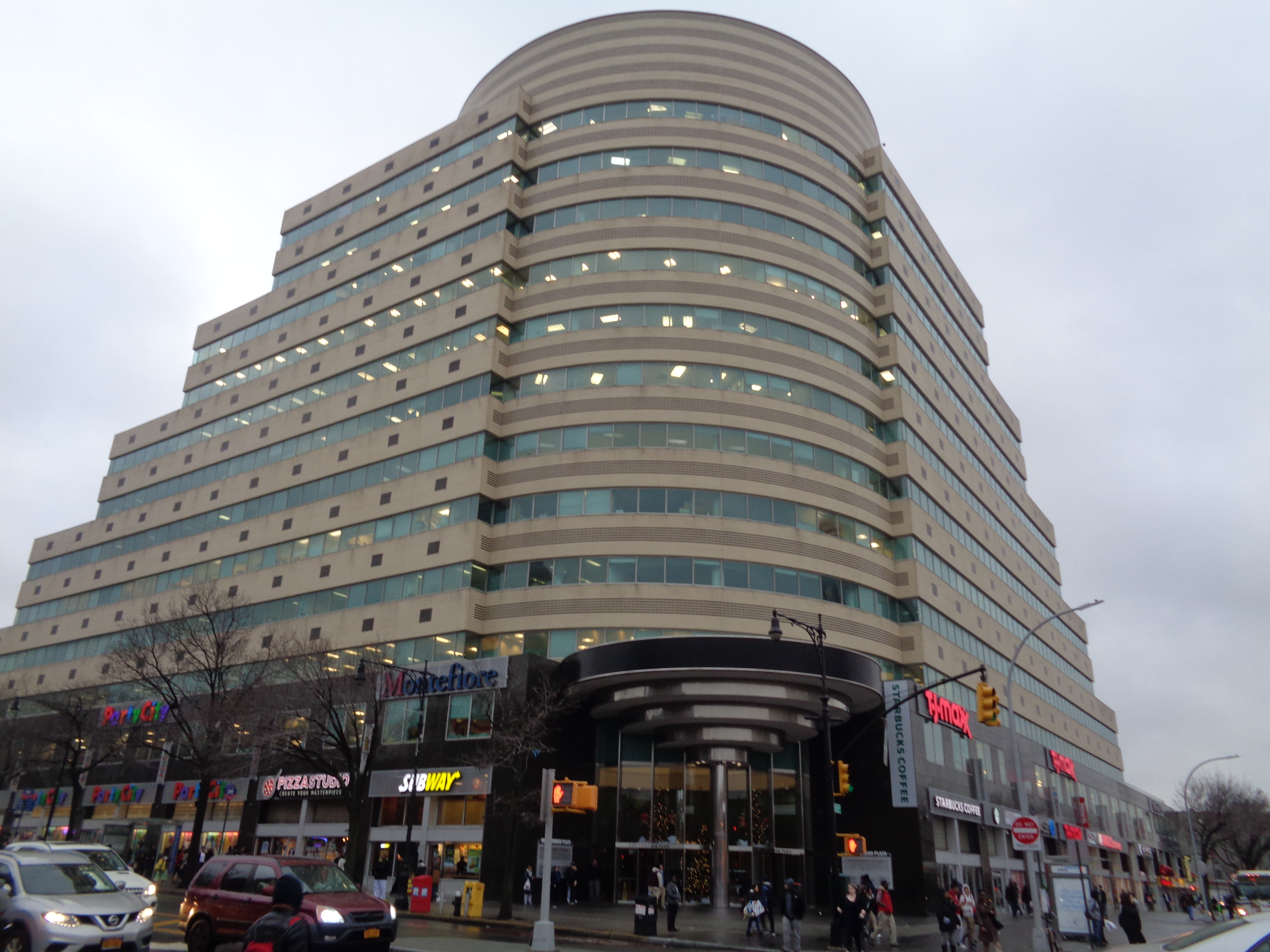 The front of One Fordham Plaza in the Bronx.